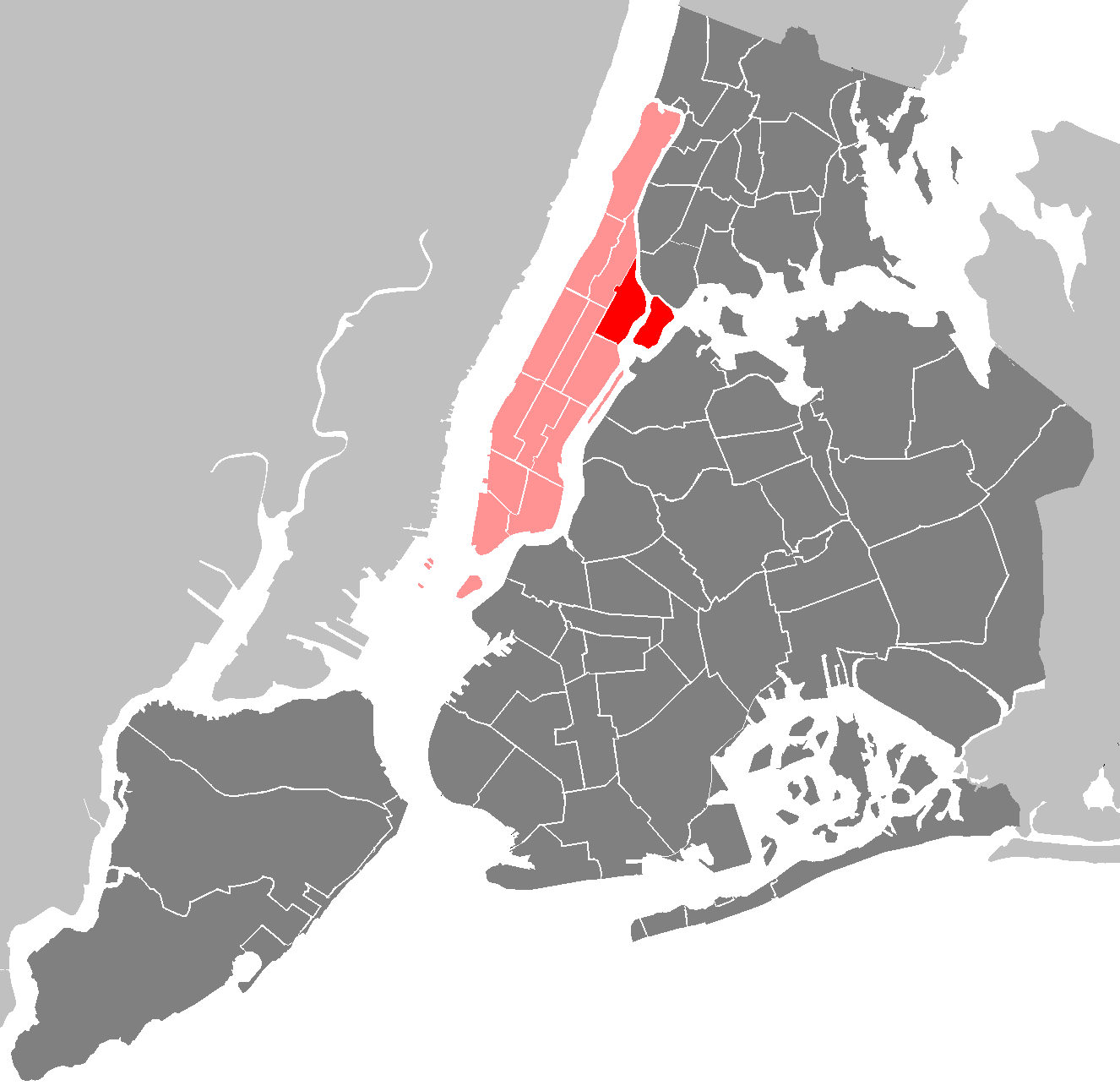 Category:Maps of New York City: New York City - Manhattan - Community Board 11.PNG